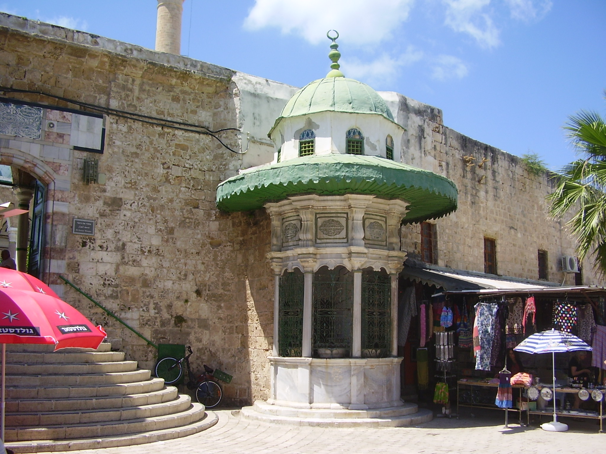 Sebil in Acre